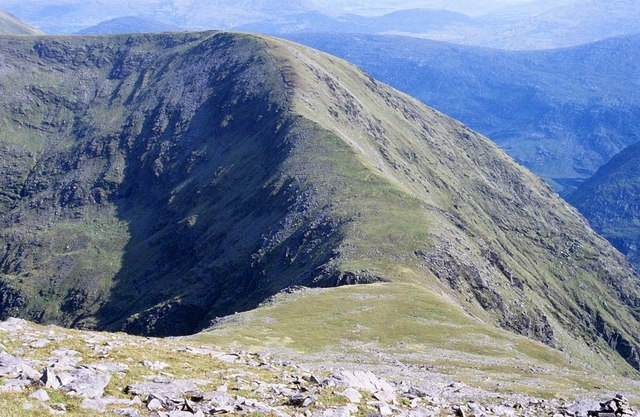 Macgillycuddy's Reeks: Col between Carrauntoohil and Cnoc na Toinne. The scar at the bottom of this col is the top of the Devil's Ladder 1433188, while Cnoc na Toinne is in V8183 with a summit height of 846 metres, or 2,776 feet, above sea level. The photographer is standing on the side slope of Carrauntoohil which is behind him.